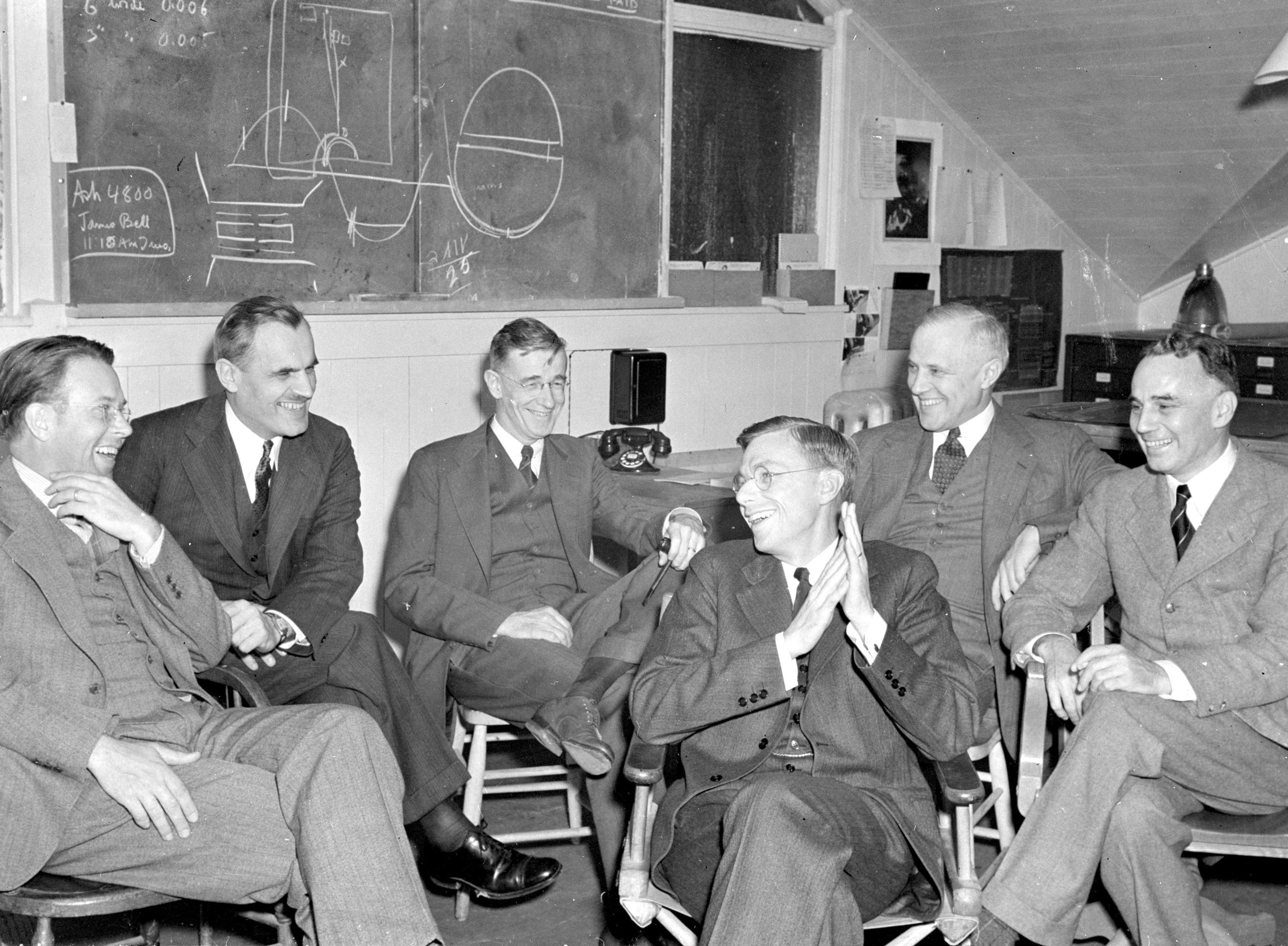 Group photo of E. O. Lawrence, A. H. Compton, V. Bush, J. B. Conant, K. Compton, and A. Loomis